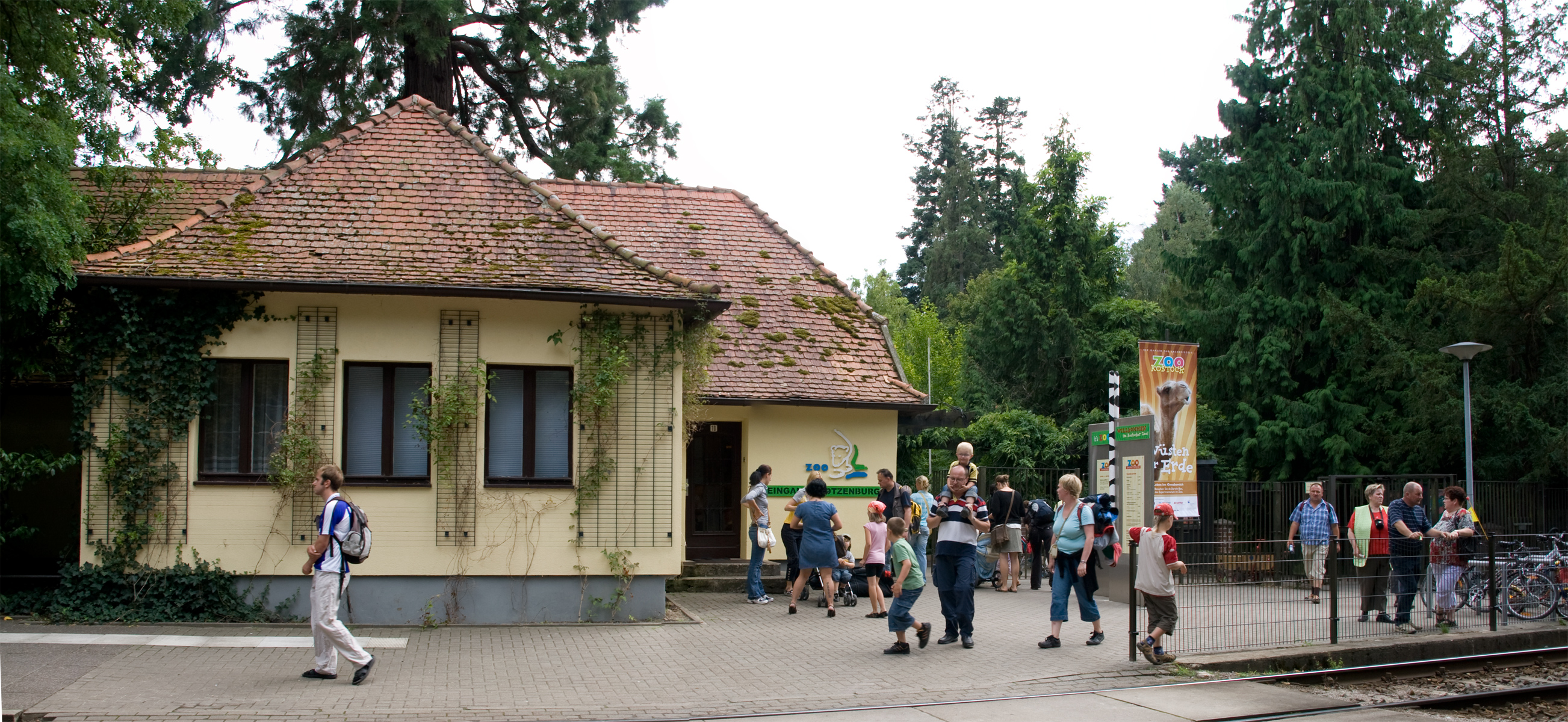 Entrance Trotzenburg to Rostock Zoo